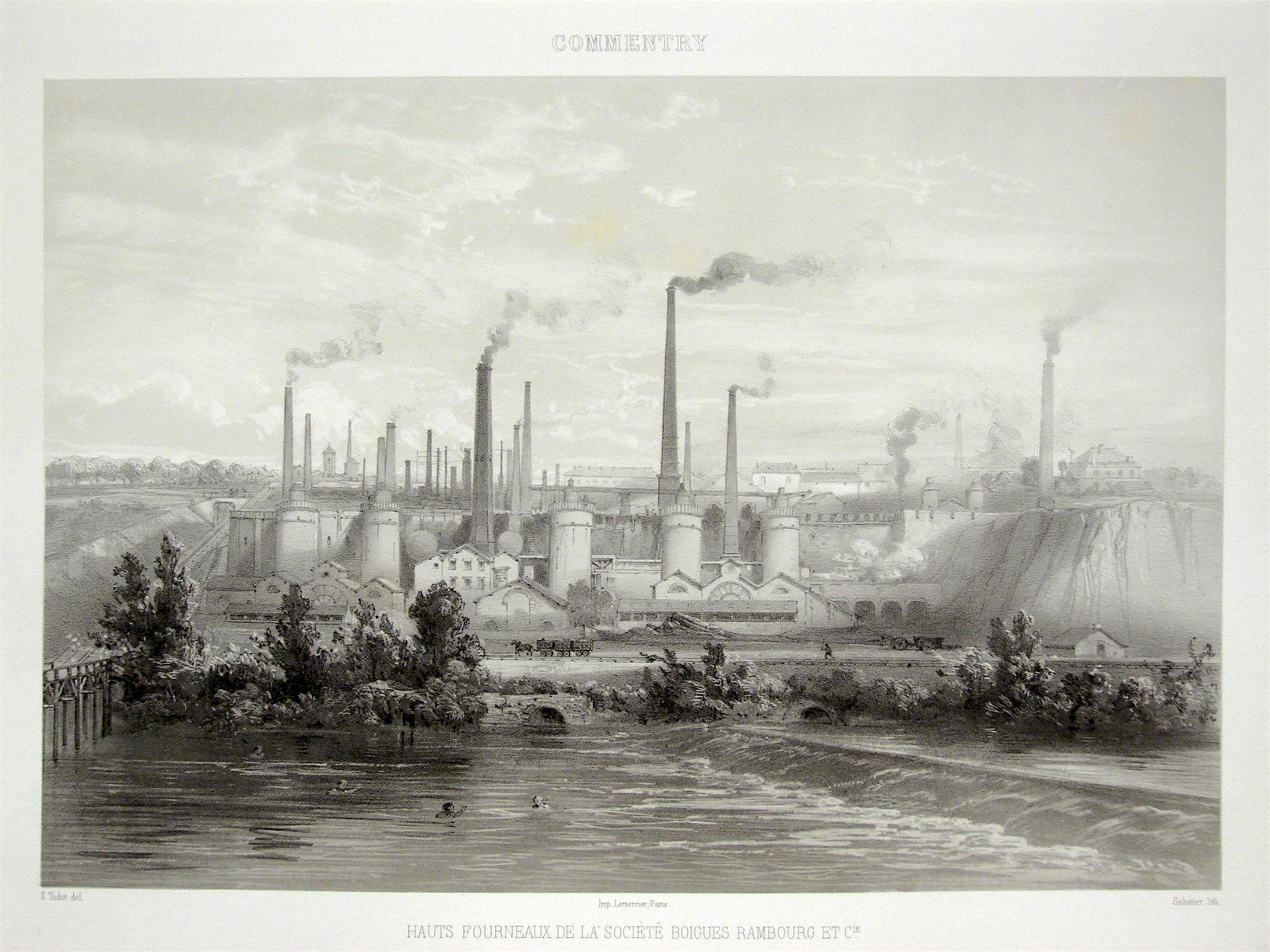 Blast furnaces of the Société Boigues, Rambourg & Cie at Commentry